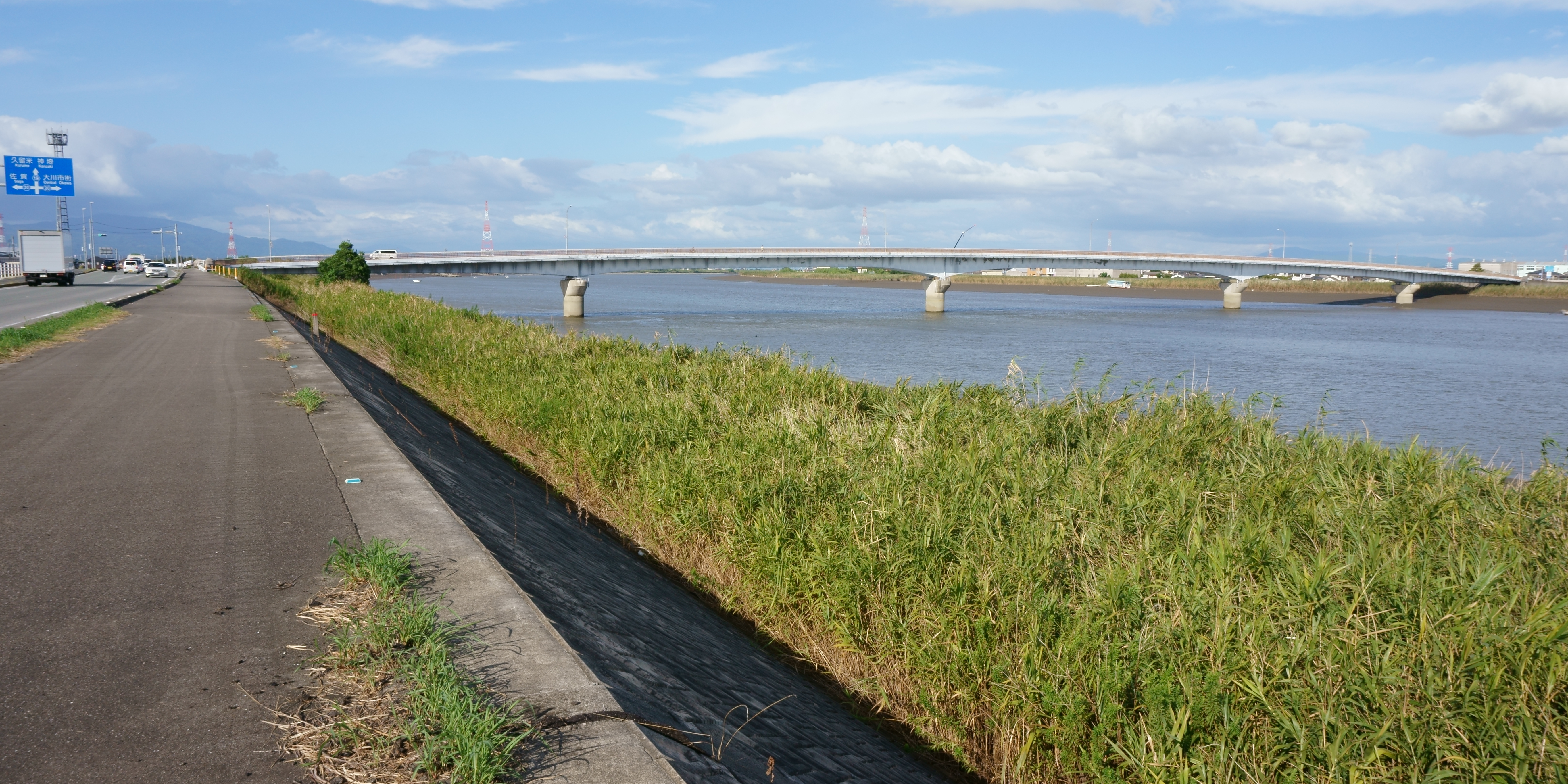 Kanegae-ohashi Bridge over Chikugo River, from Dokaijima, Okawa city, Fukuoka prefecture. It is part of Saga Prefectural and Fukuoka Prefectural Road No.20.